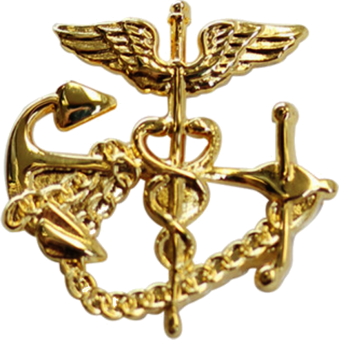 This image was extracted from the PHSCC Instruction CC431.01